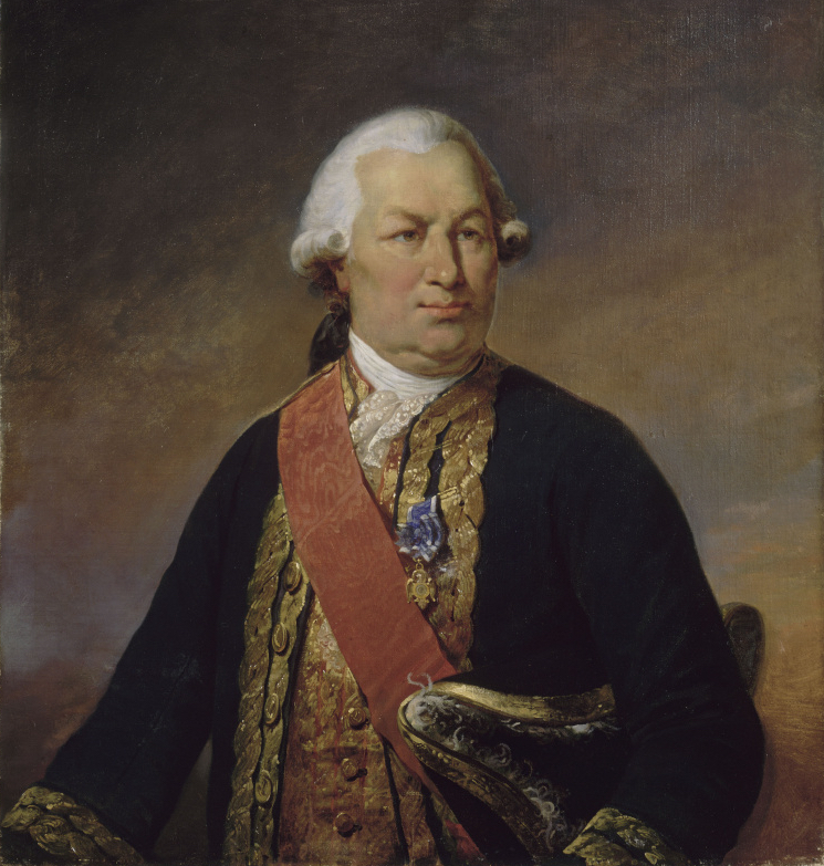 François Joseph Paul de Grasse